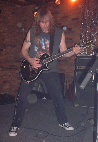 Ross The Boss Summer 2006 © 2006 Dawn Owar Please link to if you use this photo